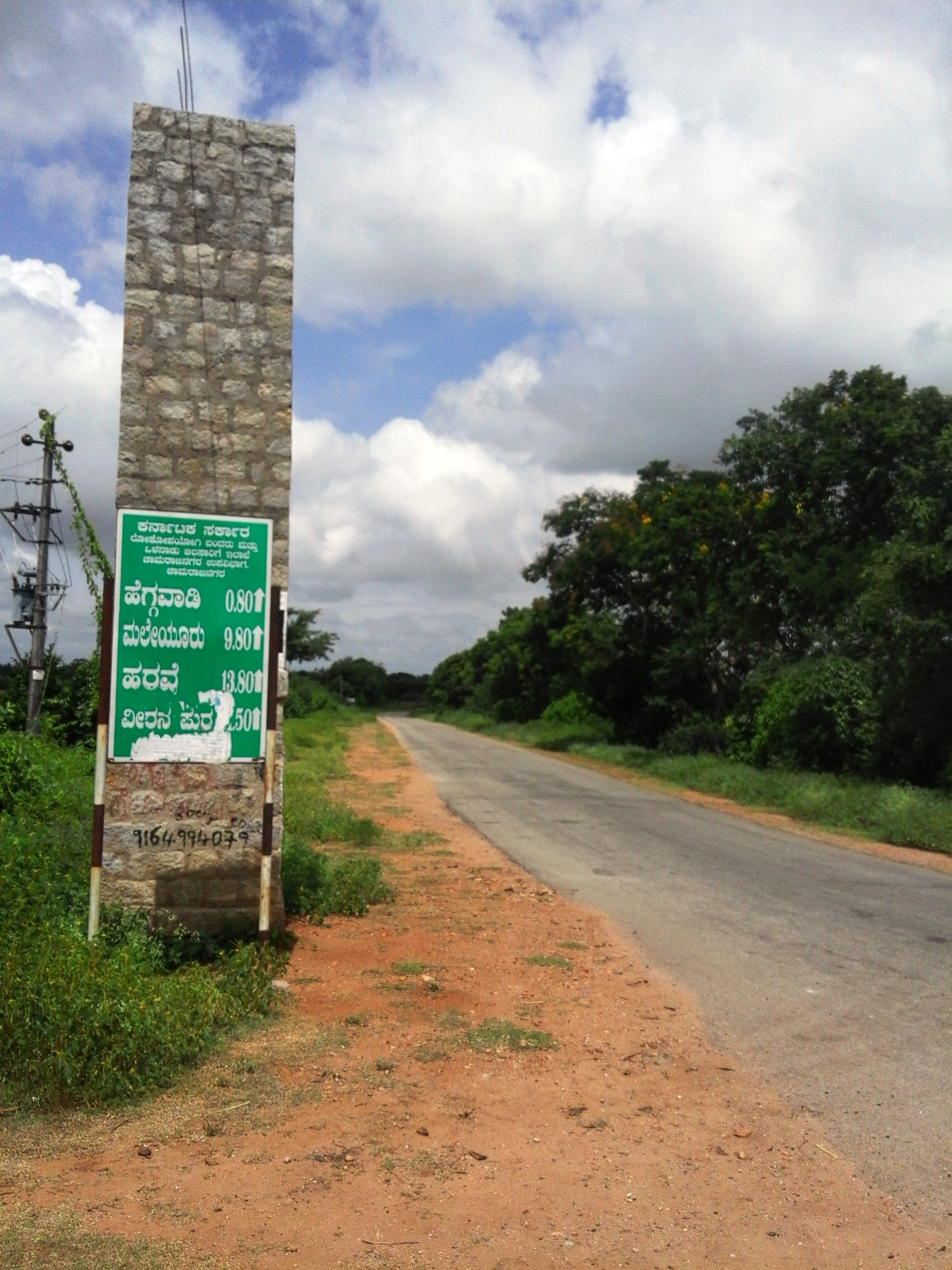 Konanur, Nanjangud taluk, Mysore District, Karnataka state, India.